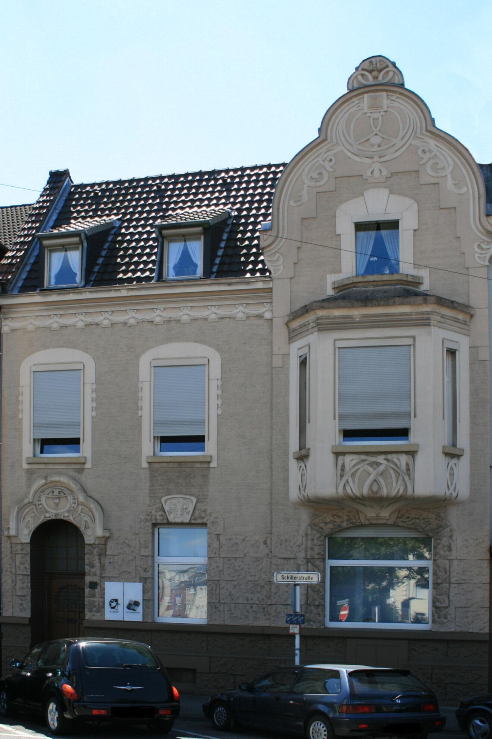 Cultural heritage monument No. Sch 037 in Mönchengladbach